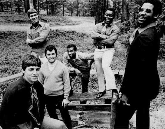 Trade ad for The Winstons's single "Love of The Common People". To better adapt it to his respective Wikipedia article, the ad was cropped and cleaned in a graphics editing program. The original can be viewed at the source below.